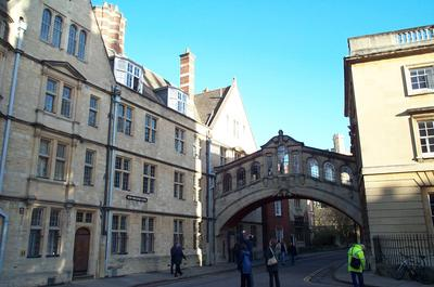 Bridge of Sighs, Hertford College, Oxford 2004-01-24; Copyright Kaihsu Tai